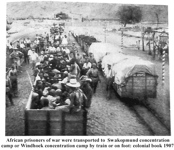 P. 75 of "Genocide in German South-West Africa: The Colonial War of 1904-1908 and Its Aftermath", by Jurgen Zimmerer, Joachim Zeller and E. J. Neather, Merlin Press (December 1, 2007)